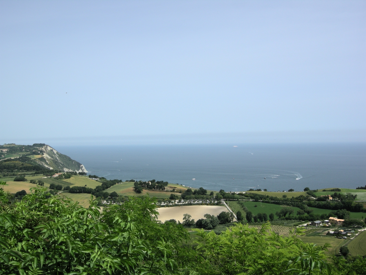 The Italian wine region of Conero near Ancona in Marche